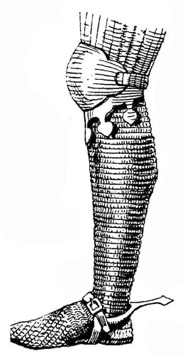 Chain-leg-armour